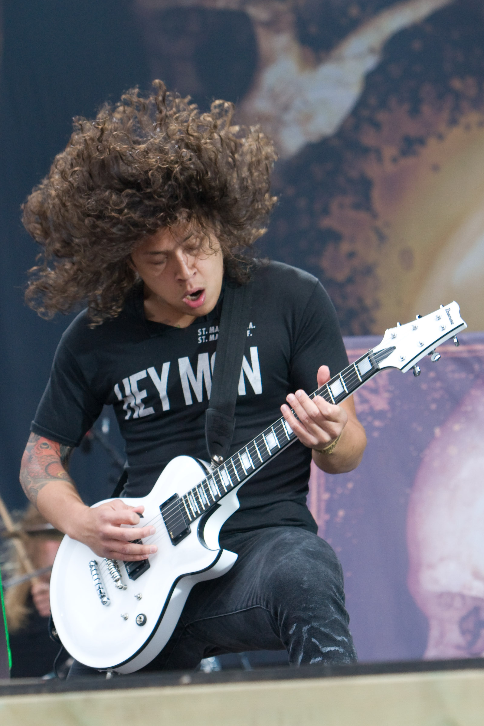 Nick Hipa / As I Lay Dying (at With Full Force 2007)